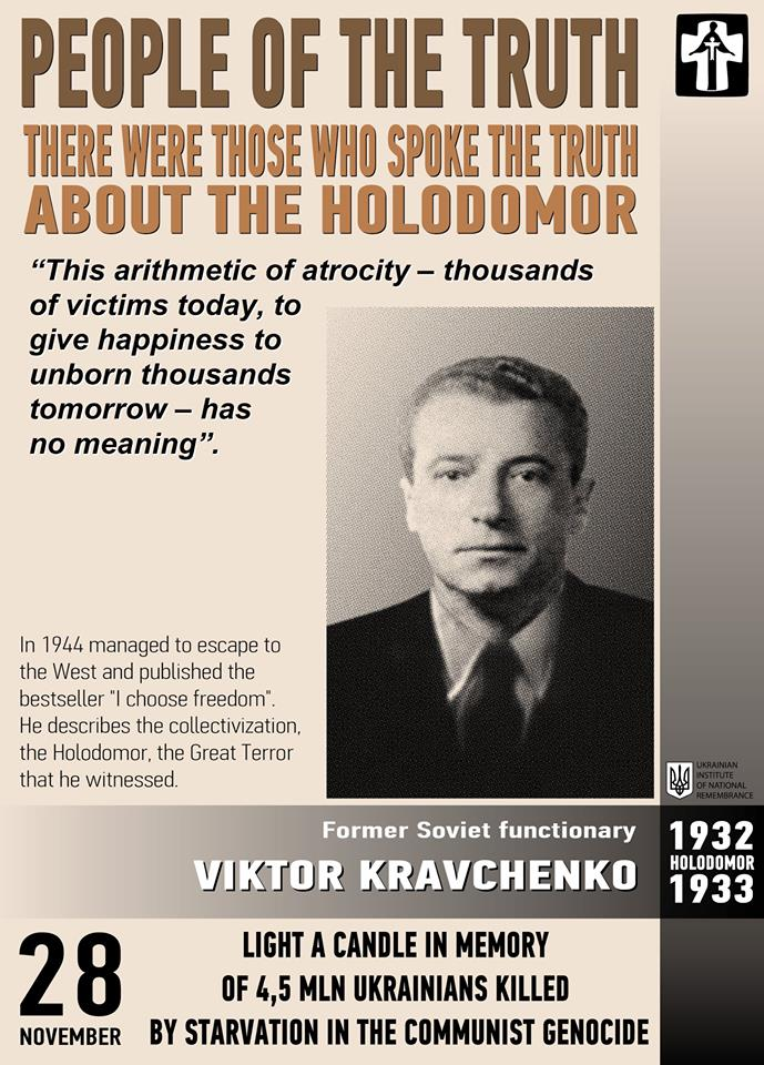 People of truth. There were those who spoke the truth about Holodomor. For the world to know.